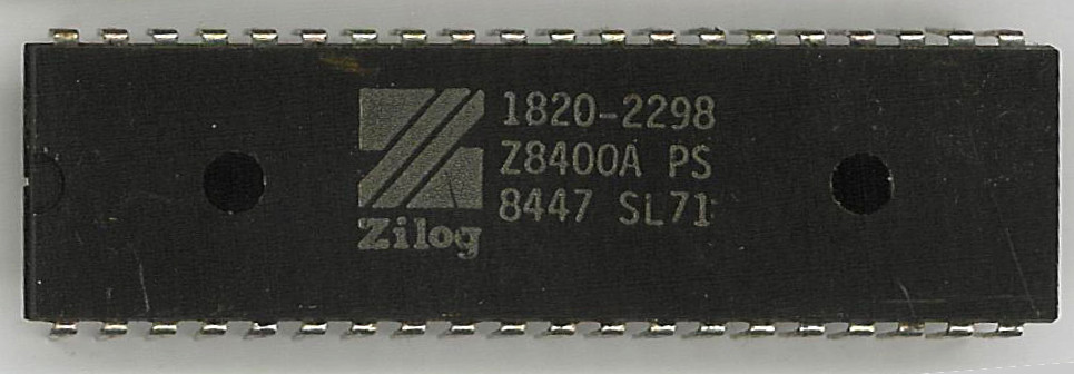 IC photo